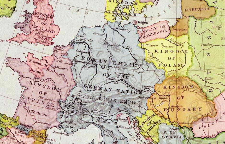 Map of north-central europe, ca. 1097 A.D.